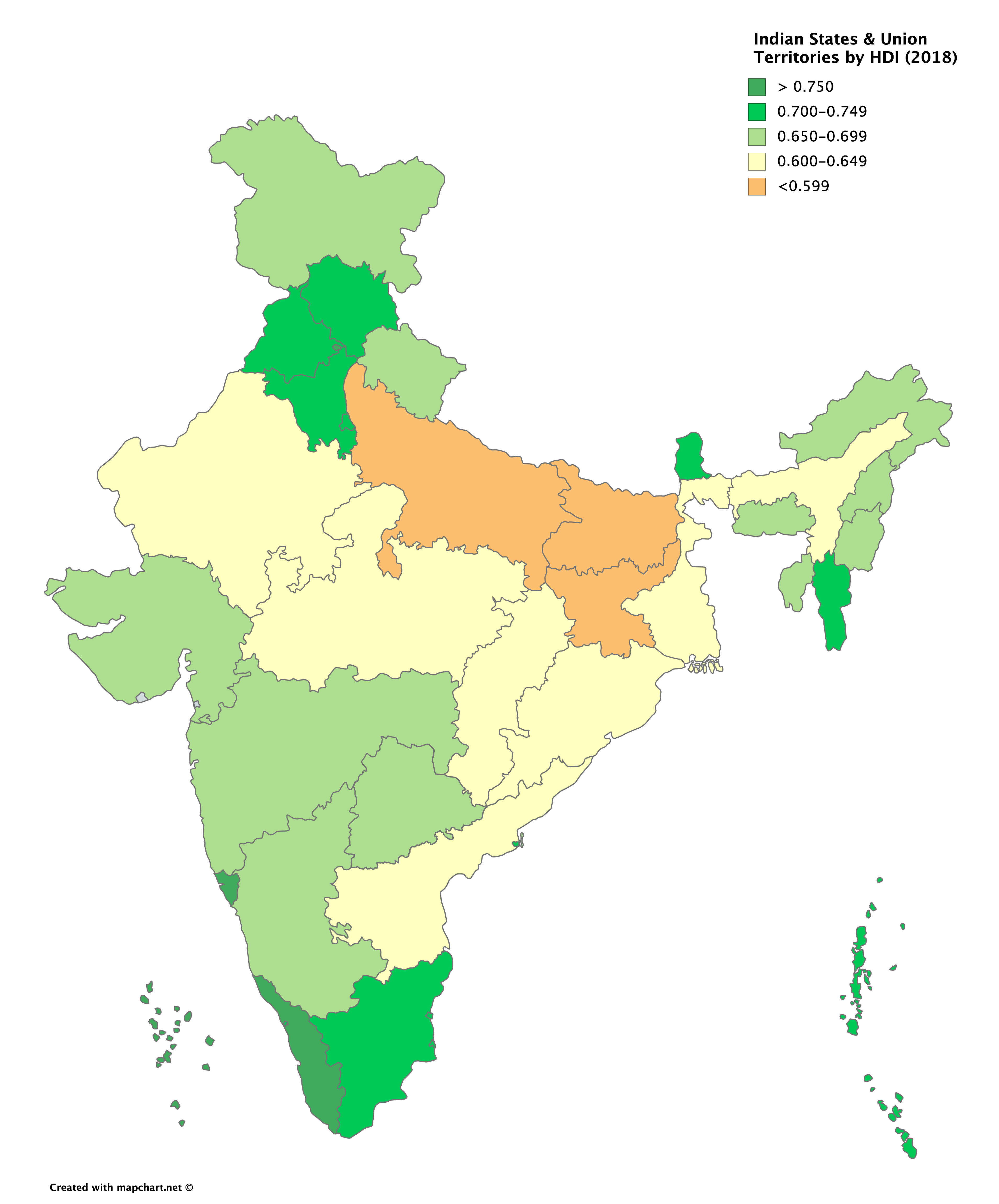 Map of the Indian states and territories by HDI in 2019 (published data from 2018)